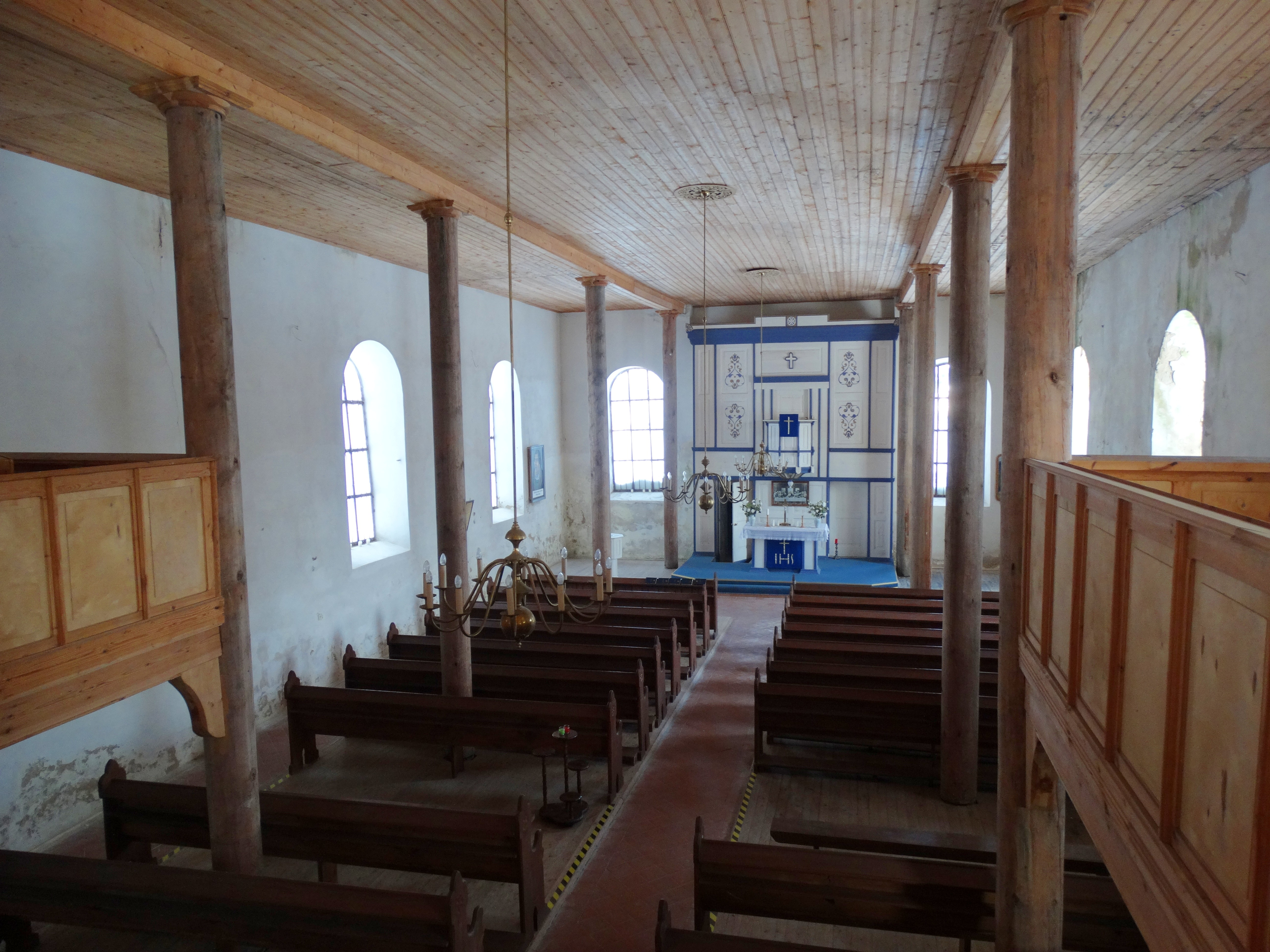 Lutheran Church, interior, Rusnė, Lithuania